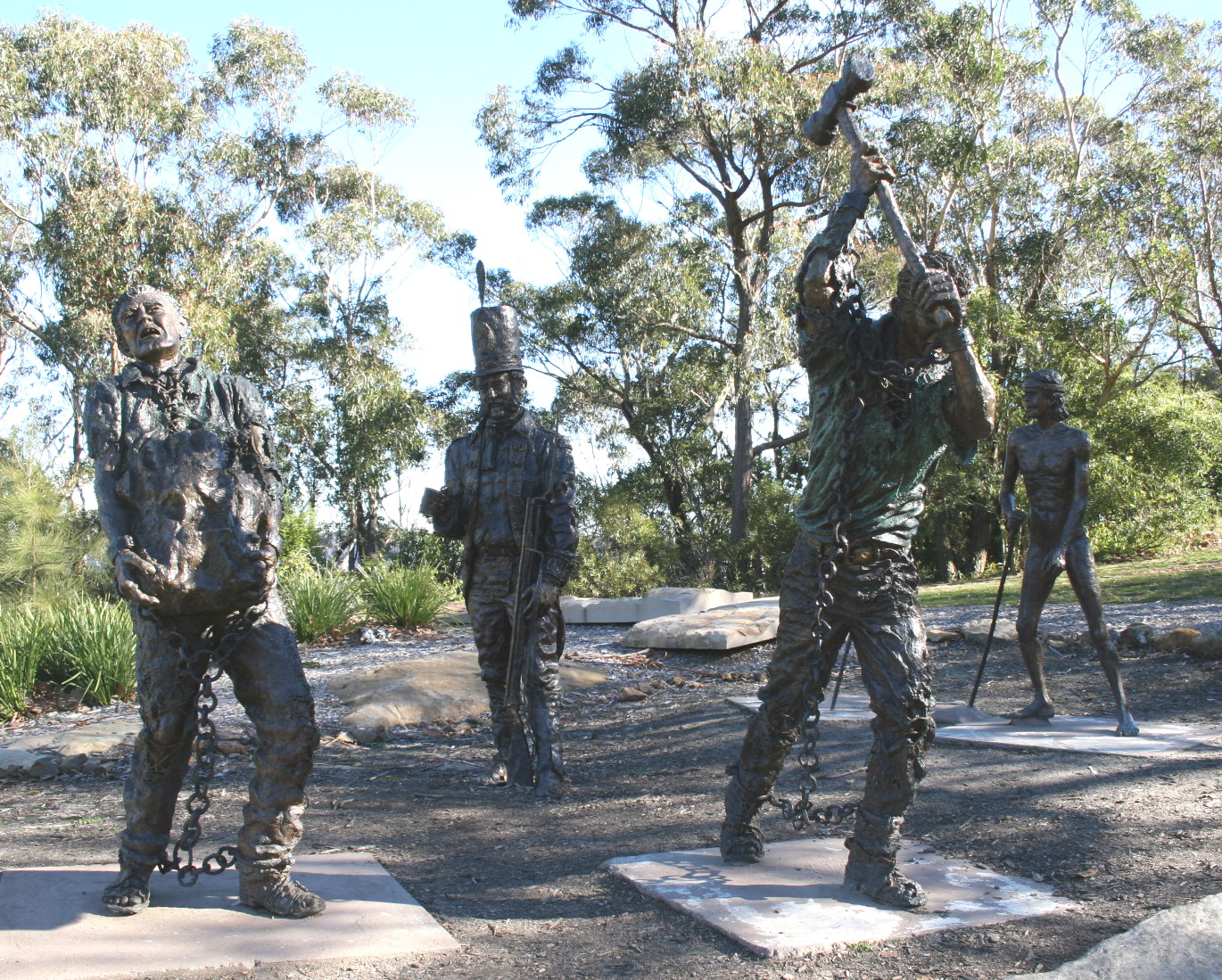 Sculptur (bronce): roadbilders (convicts), engl. soldier, aborigines. Near Katoomba (Australia), Echo-Point, Tree Sisters (Australia). Foundet Lions Club